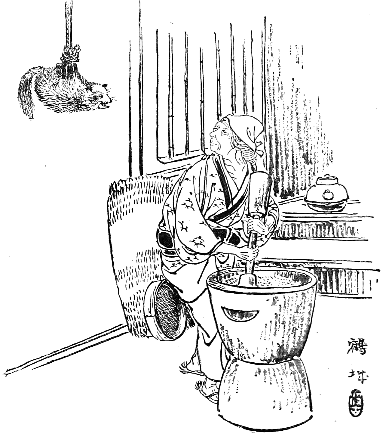 Image from The Japanese Fairy Book